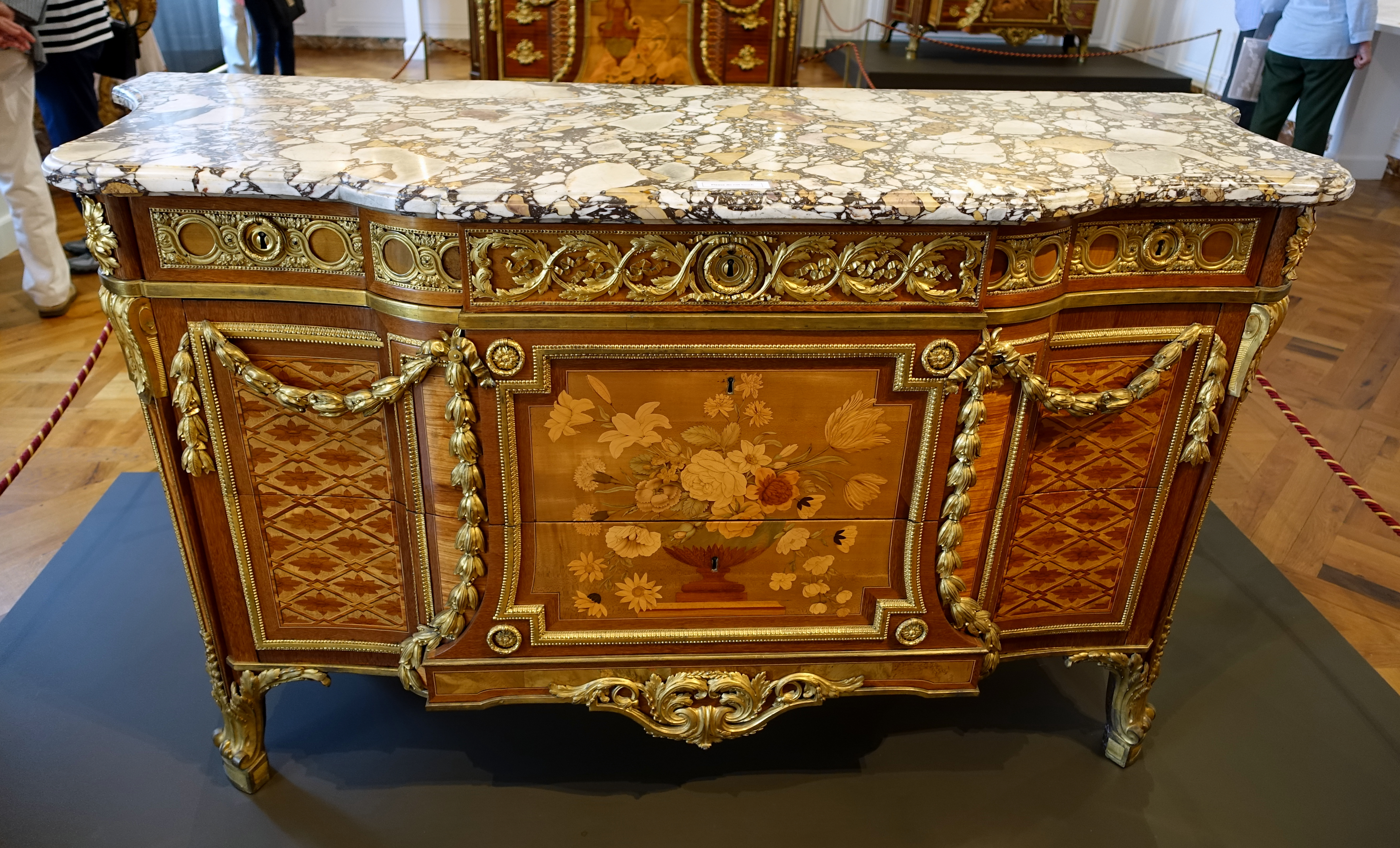 Item in Waddesdon Manor - Buckinghamshire, England.